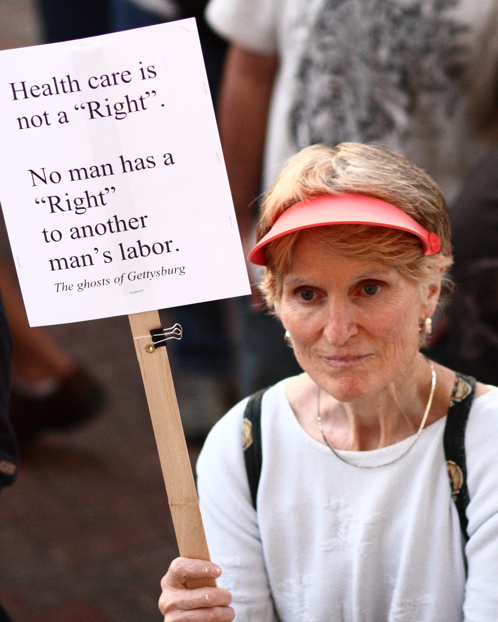 Woman outside the West Hartford, Connecticut town hall after a health care reform town hall meeting with U.S. Representative John B. Larson on 2 September 2009, holding a sign that reads: with a sign that reads: :Health care is not a "Right". No man has a "Right" to another man's labor. The ghosts of Gettysburg